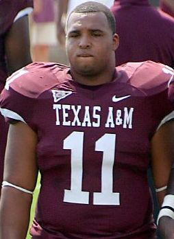 Texas A&M football player Jorvorskie Lane at the 2006 Texas Tech game at Kyle Field